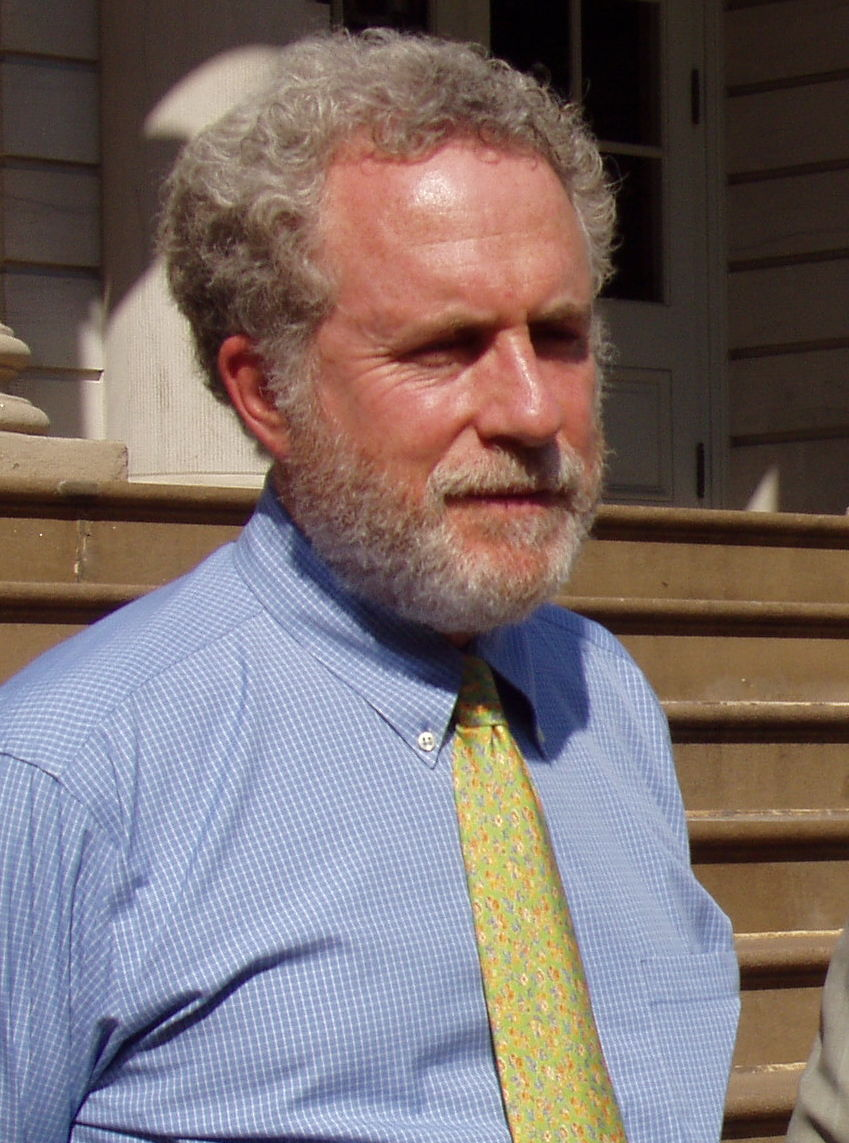 Lawyers and co-creators of the Innocence Project Barry Scheck and Peter Neufeld personally endorsing Cy